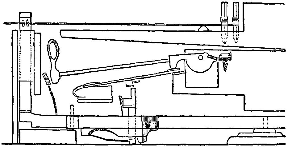 Cristofori's Escapement Action, 1720. Restored in 1875 by Cesare Ponsicchi.